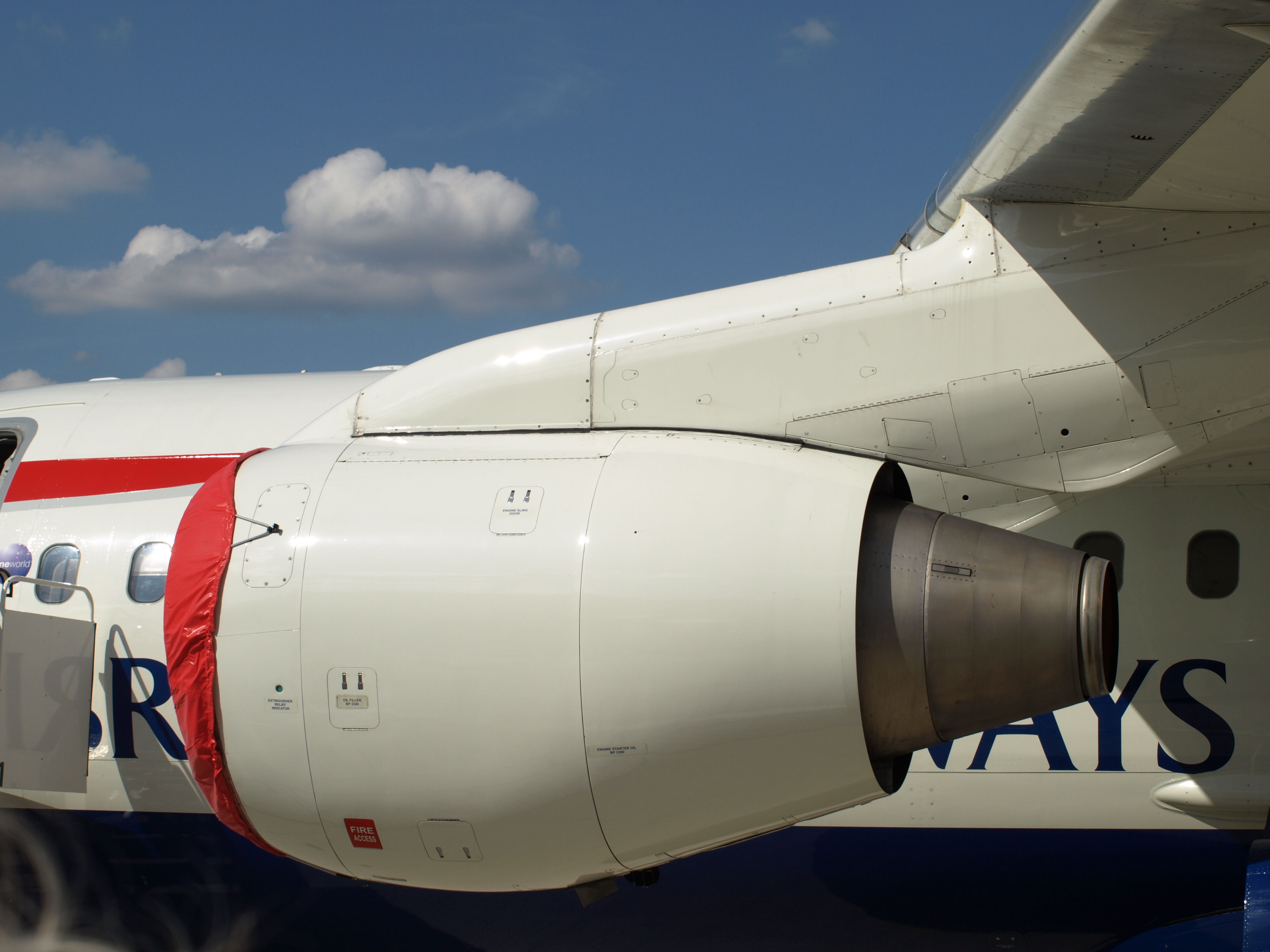 Engines of an British Airways BAe 146 at LCY London City